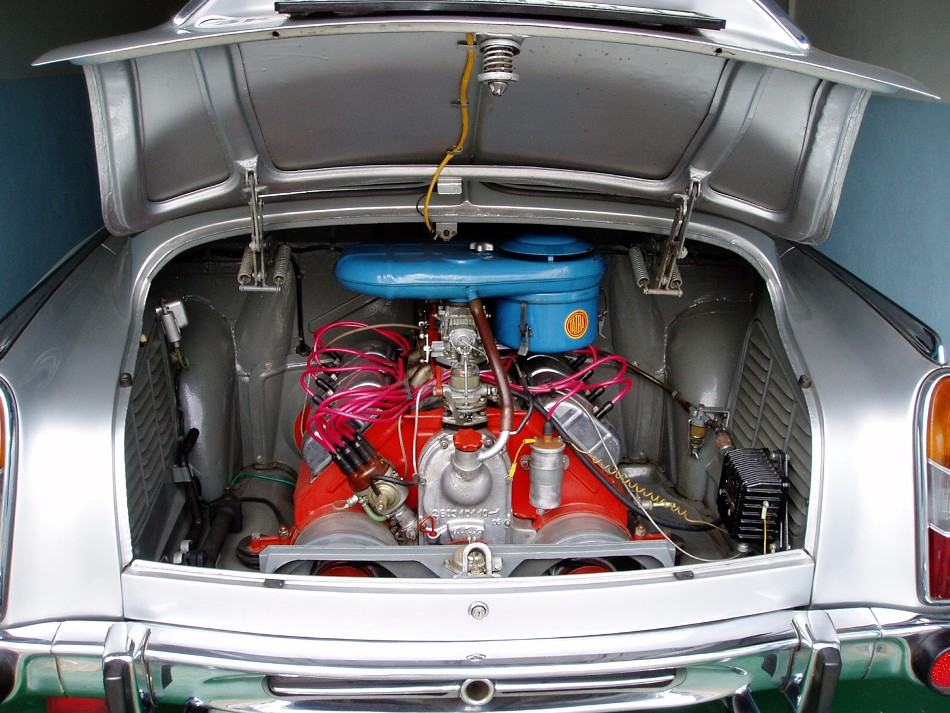 Air cooled engine Tatra 603 H (1975), 8V - 2472ccm, 105HP (77kW) 4800/min Photo: Ondrej Ertl (2002, Bratislava)